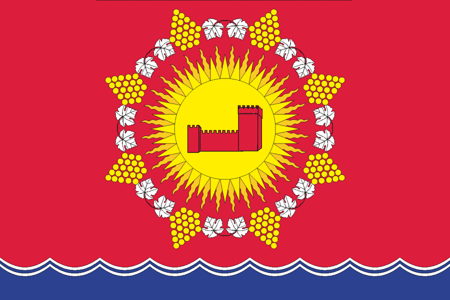 Flag of Sudak, Crimea, Russia